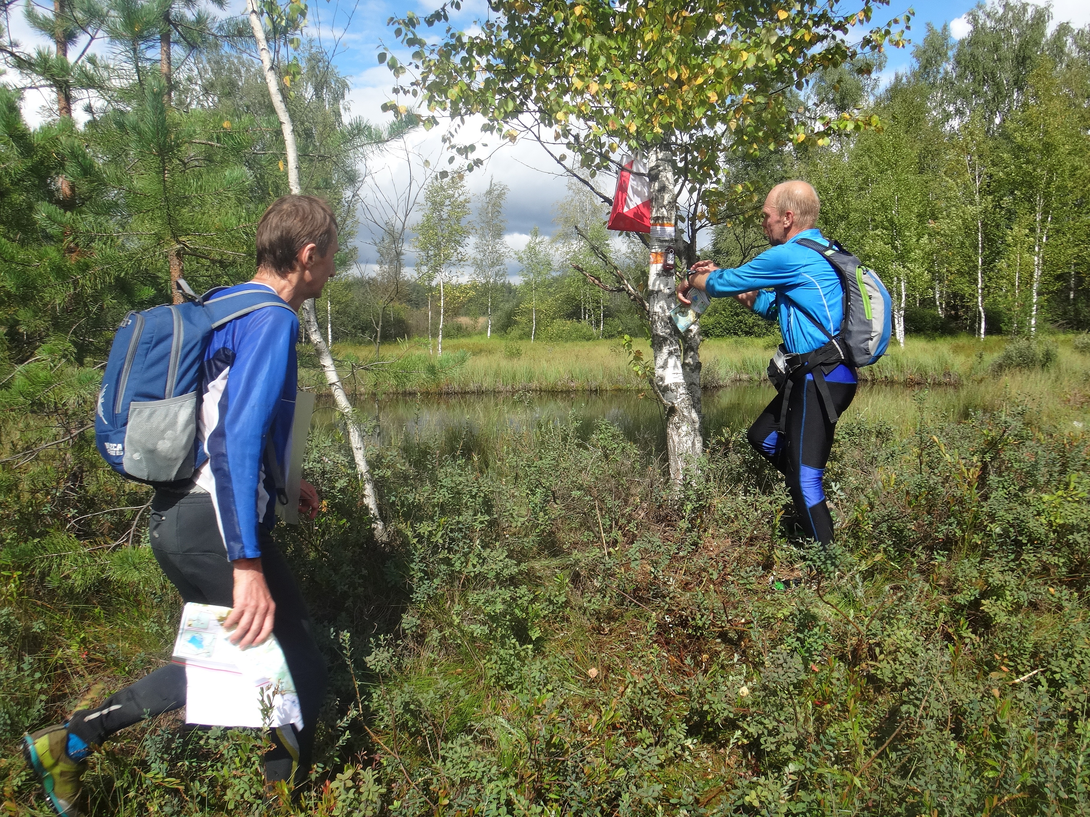 Team at a checkpoint on «Moscow rogaine — 2014» (30 august 2014, Noginsk district, Moscow region, Russia).